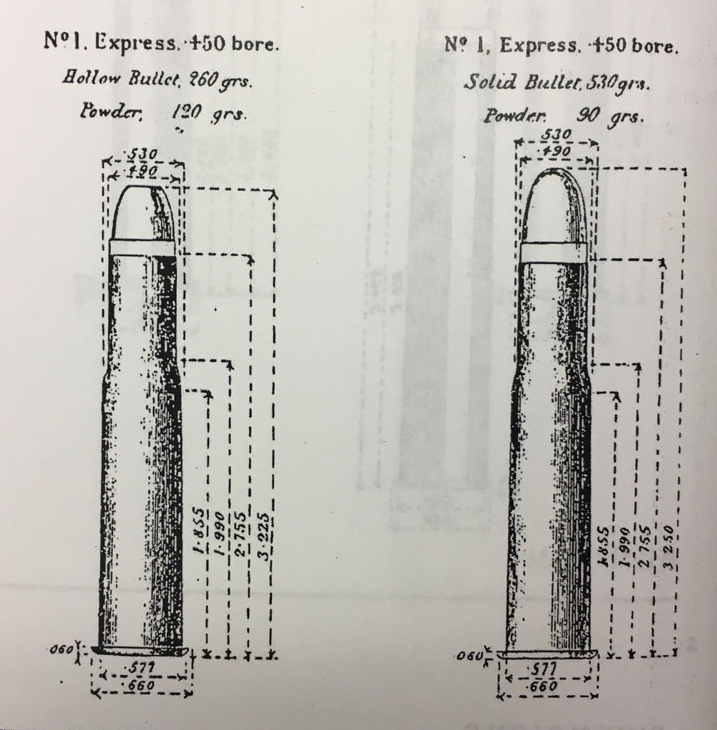 A page from the 1884 Kynoch cartridge catalogue. The neck size shown is for diameter of the case neck, not the bullet diameter.